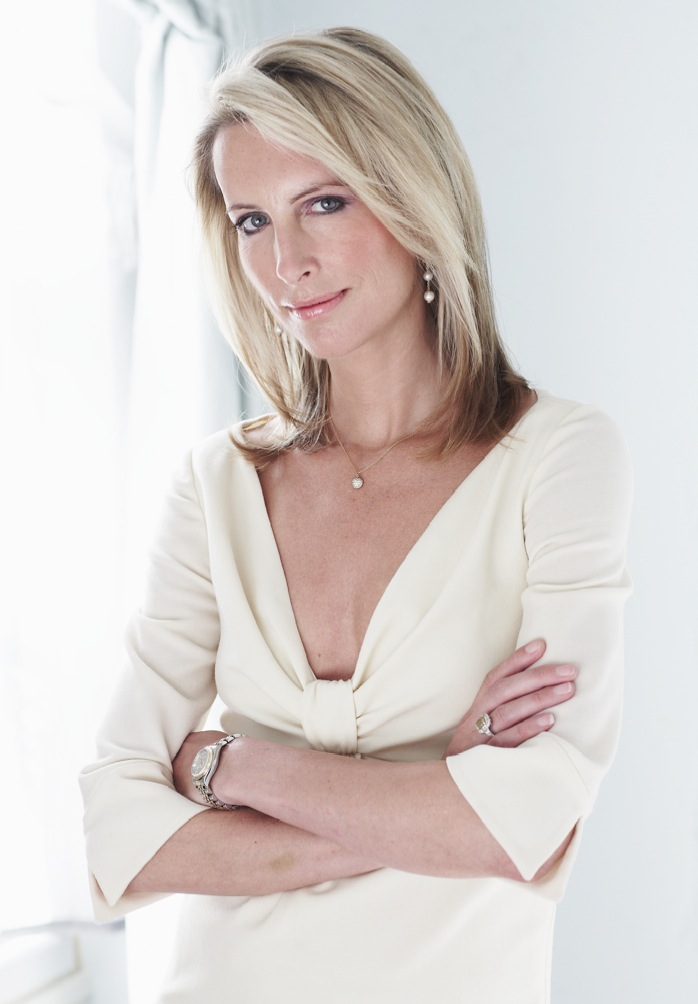 Vicky Ward Book Jacket Photo